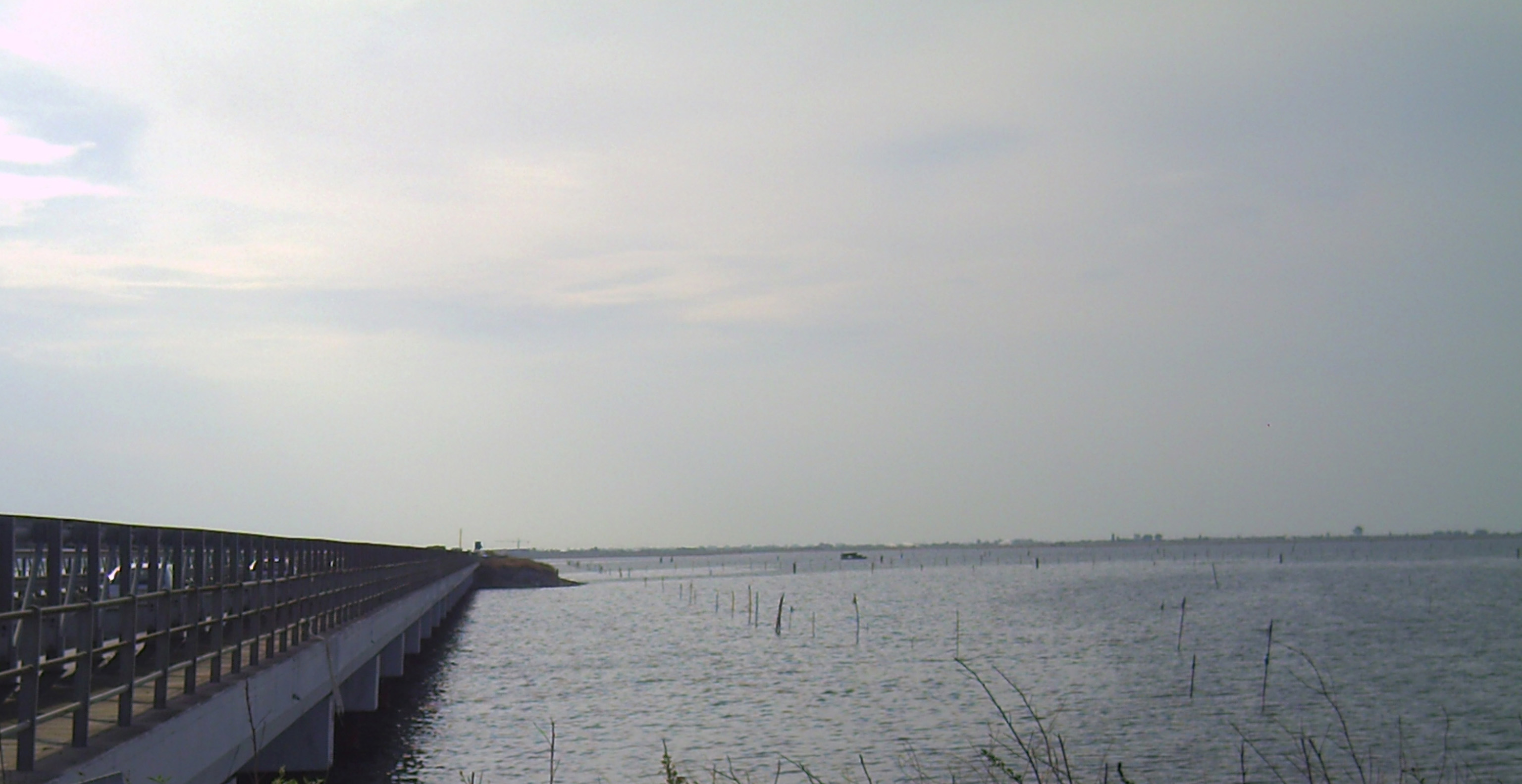 Bridge over Chioggia lagoon, SS 309 "Romea"